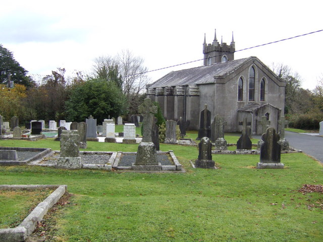 Church in Ireland, Inch, Co. Wexford An Anglican denomination place of worship in a village by the (now by-passed) N11.